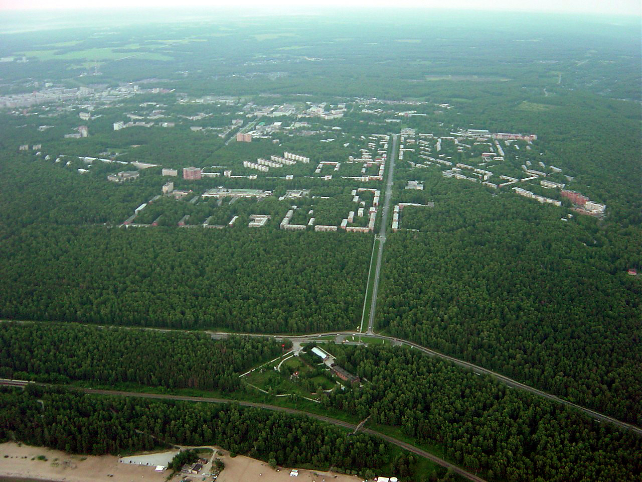 Picture of Novosibirsk Akademgorodok - the Siberian scientific centre